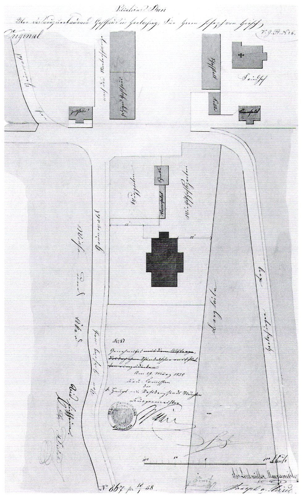 Situationsplan des Gasthauses Harlaching: Map of Harlaching 1858: St. Anna Church and Harlaching Inn